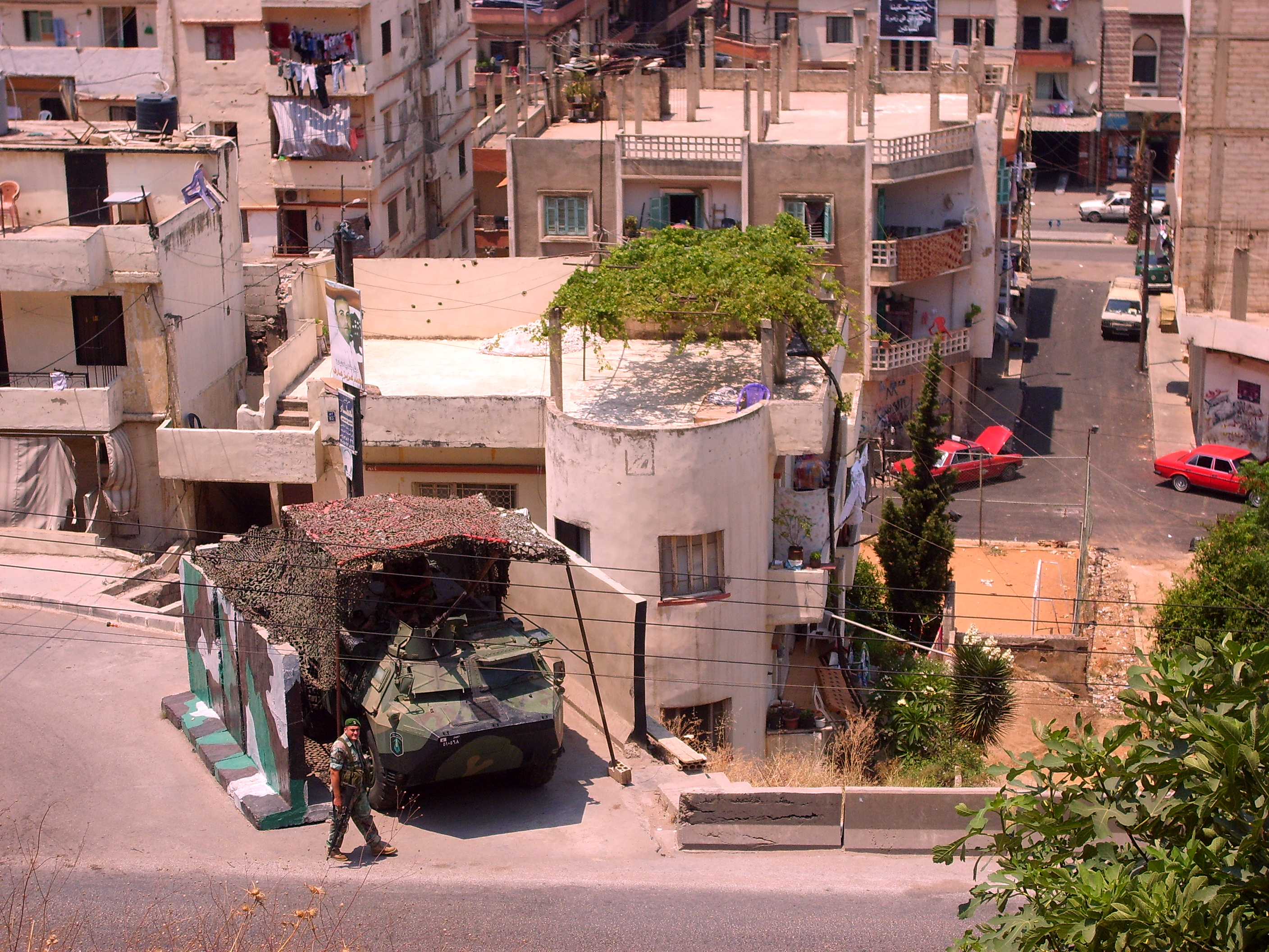 Lebanese army vehicle and soldier on Syria Street, guarding the road between Bab al-Tabbaneh and Jabal Mohsen.